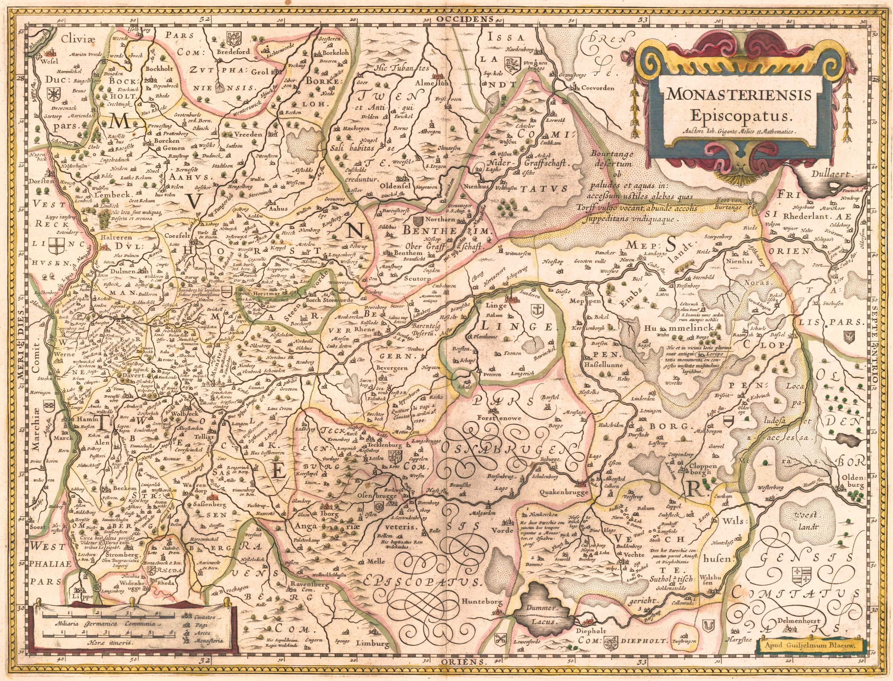 Title Monasteriensis Episcopatus (Bishopric of Münster)from"Theatrum Orbis Terrarum, sive Atlas Novus in quo Tabulæ et Descriptiones Omnium Regionum, Editæ a Guiljel et Ioanne Blaeu"(Theater of the World, or a New Atlas of Maps and Representations of All Regions, Edited by Willem and Joan Blaeu), 1645.